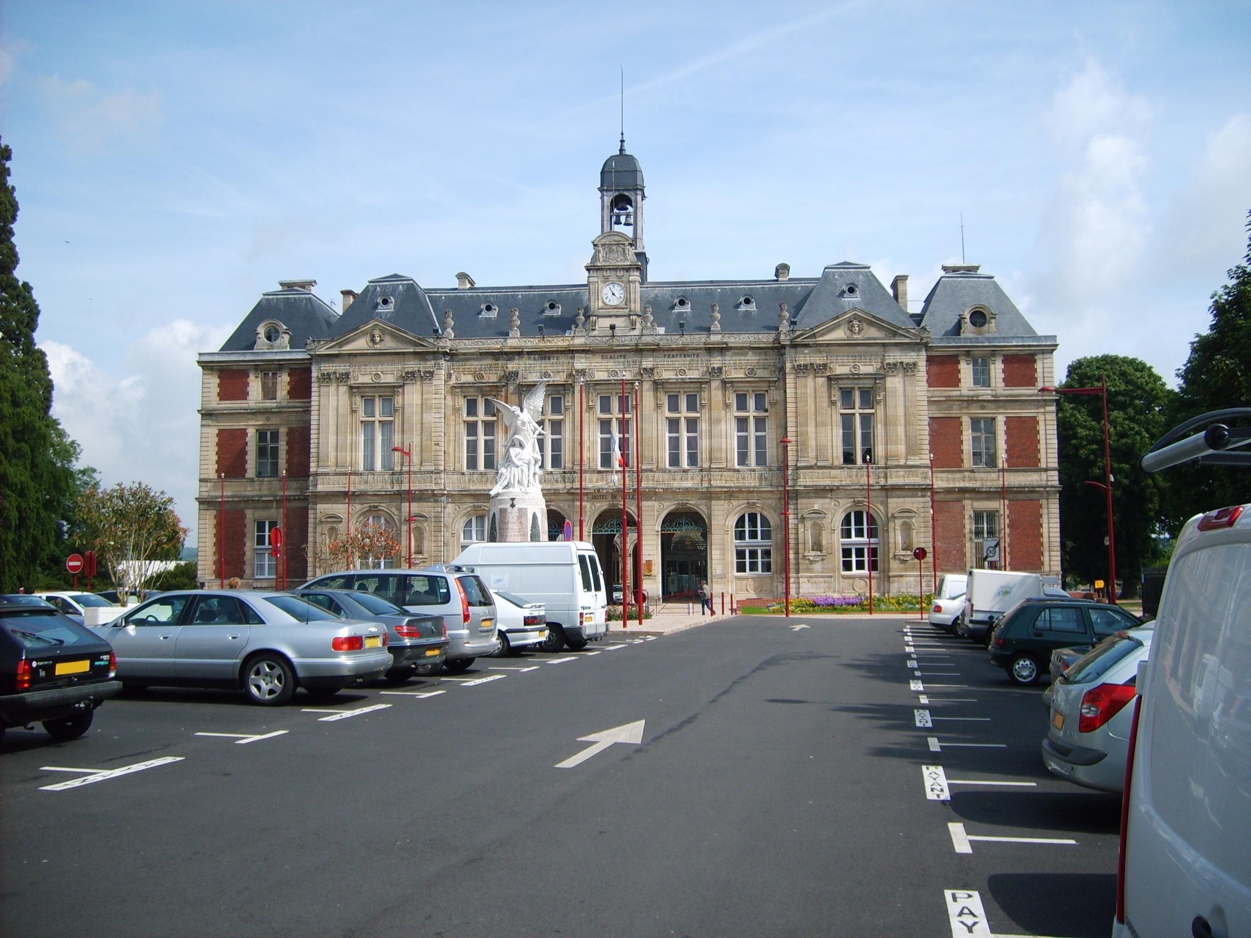 Mairie d'Elbeuf, Seine-Maritime, France. City hall of Elbeuf, Seine-Maritime, France.